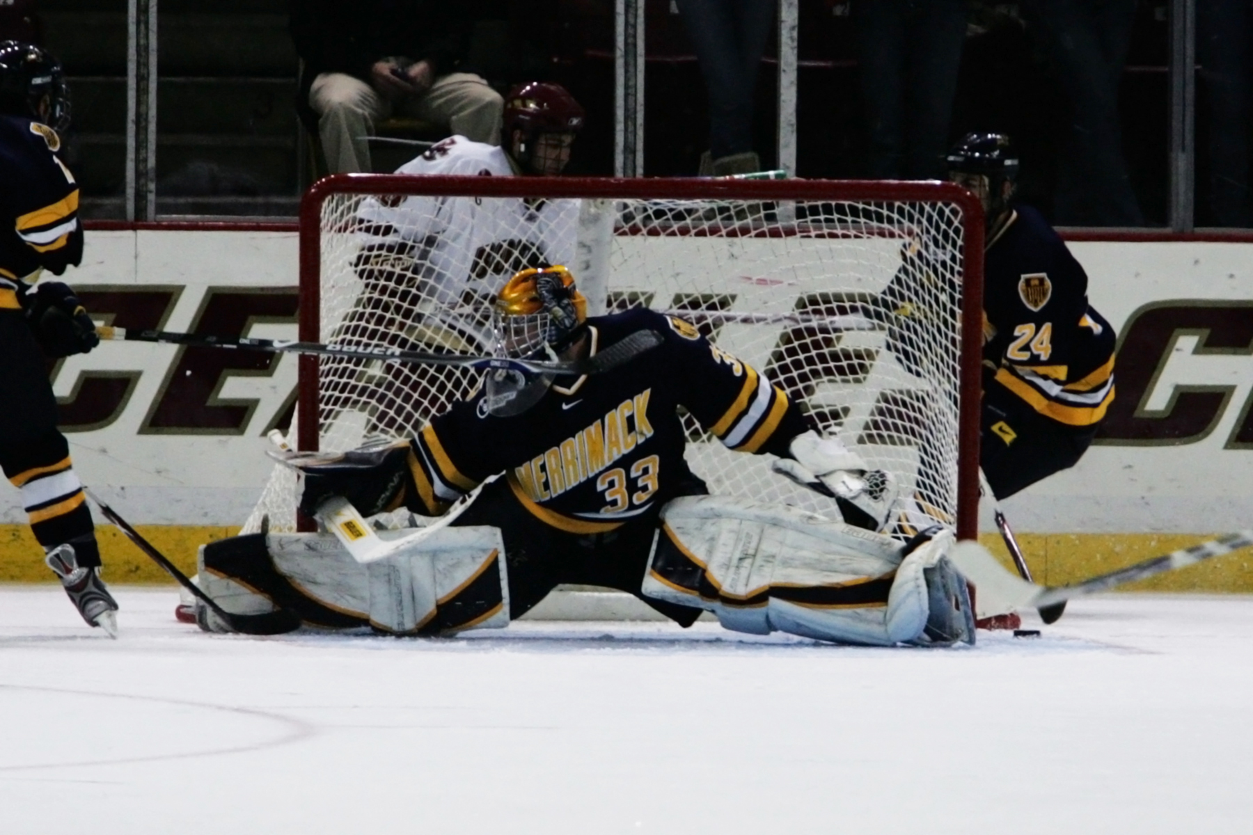 Andrew Brathwaite, Goalie of Merrimack College, in game vs. Boston College